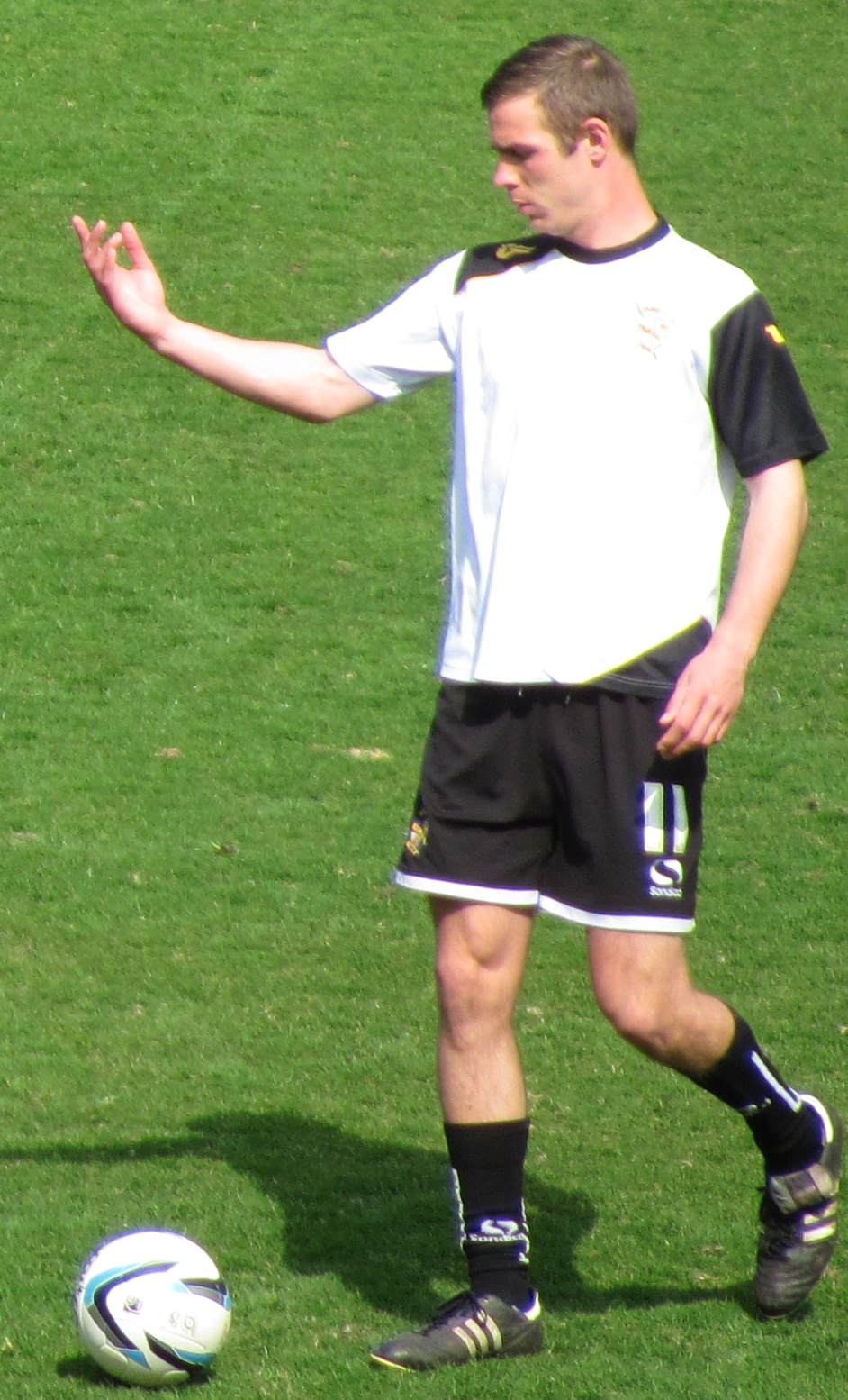 Pictured during the 2-2 draw between Port Vale and Northampton Town on 20 April 2013.